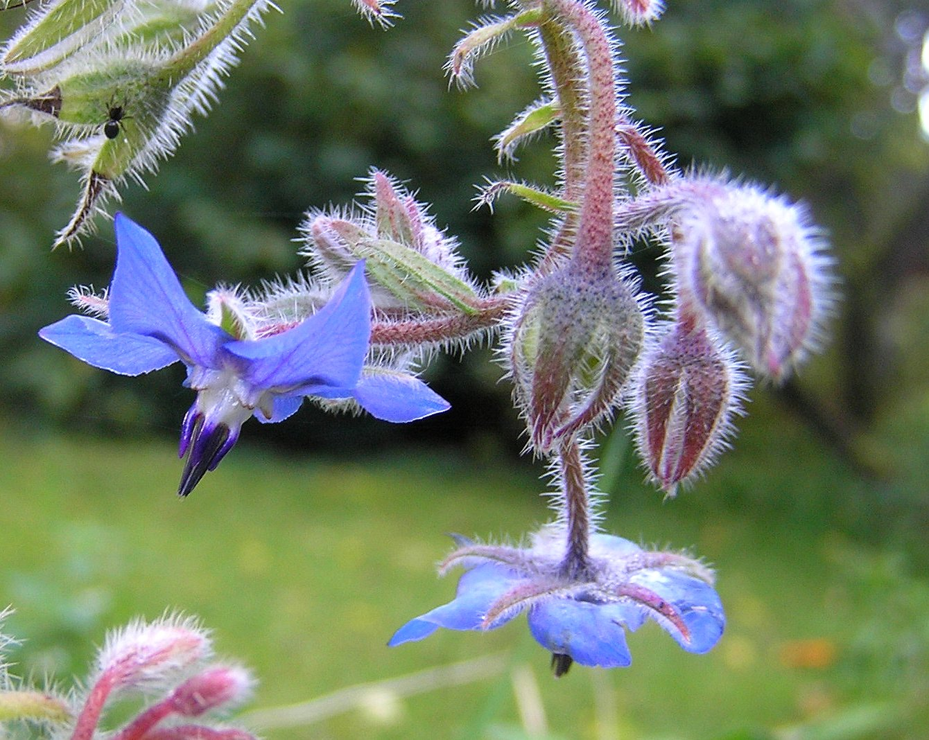 Borago officinalis